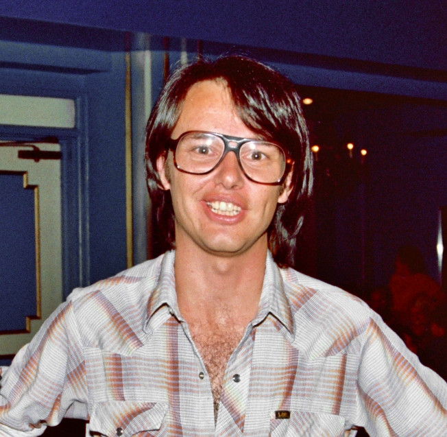 Mike Friedrich at the 1982 San Diego Comic Con